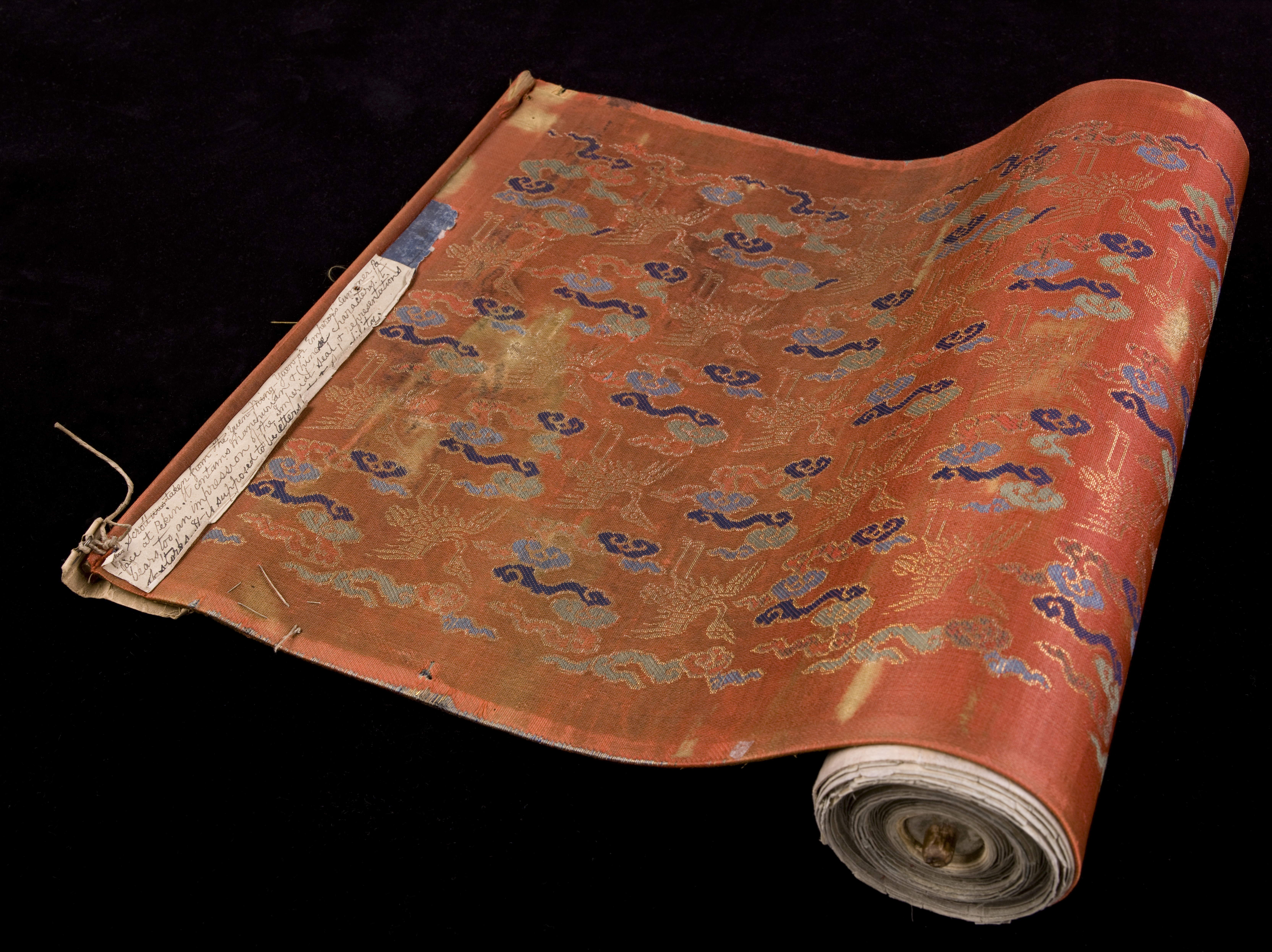 Wellcome Chinese Collection 197 Asian Collection